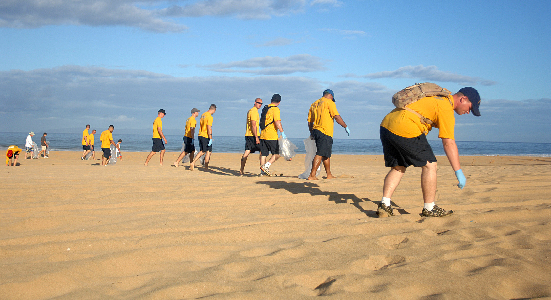 BARKING SANDS, Hawaii (June 24, 2011) Sailors and Pacific Missile Range Facility personnel pick up trash during a beach clean up in support of World Oceans Day, which was officially observed on June 8th. (U.S. Navy photo by Mass Communication Specialist 1st Class Jay C. Pugh/Released)